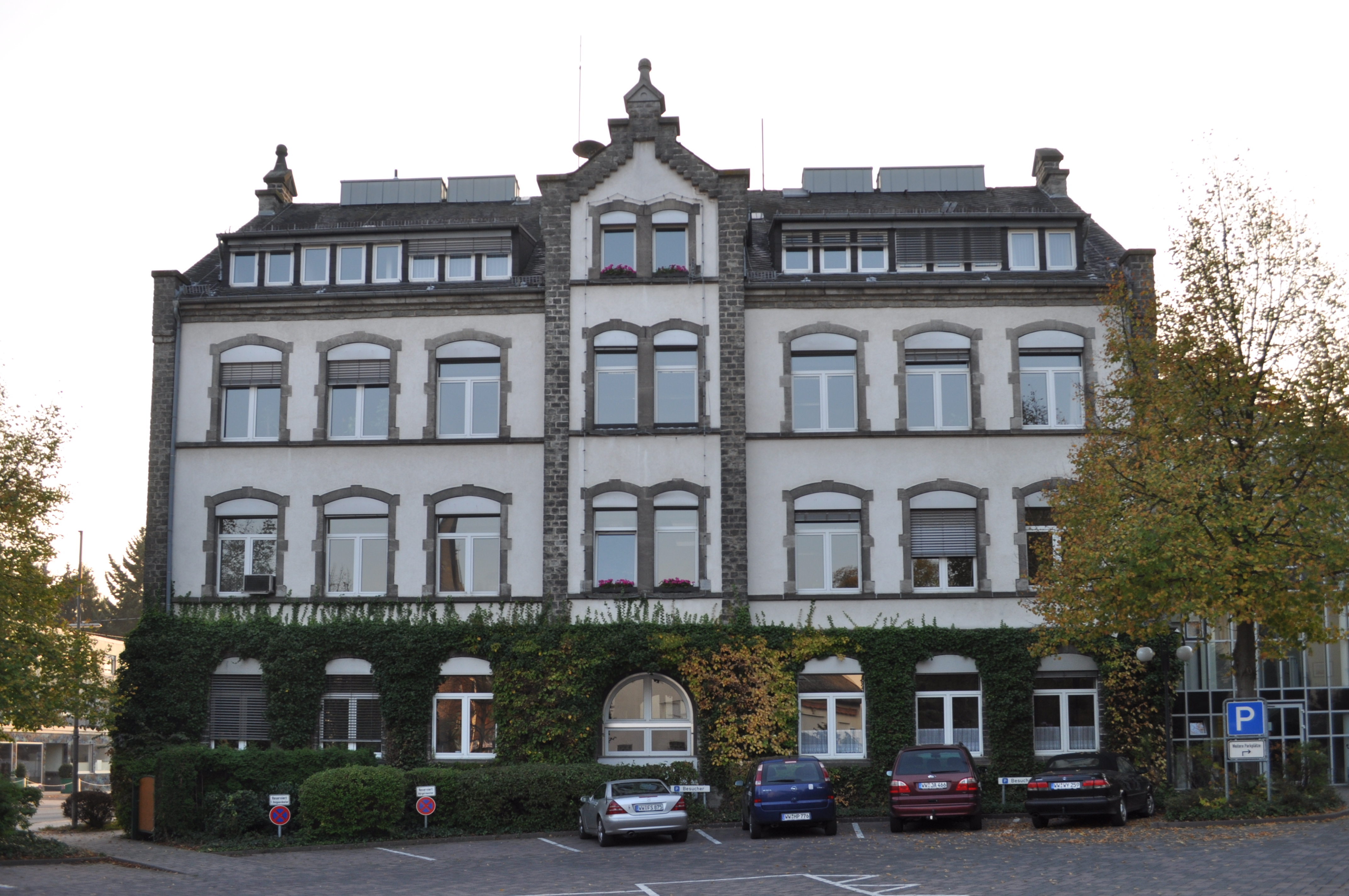 Town hall in Wirge, Germany